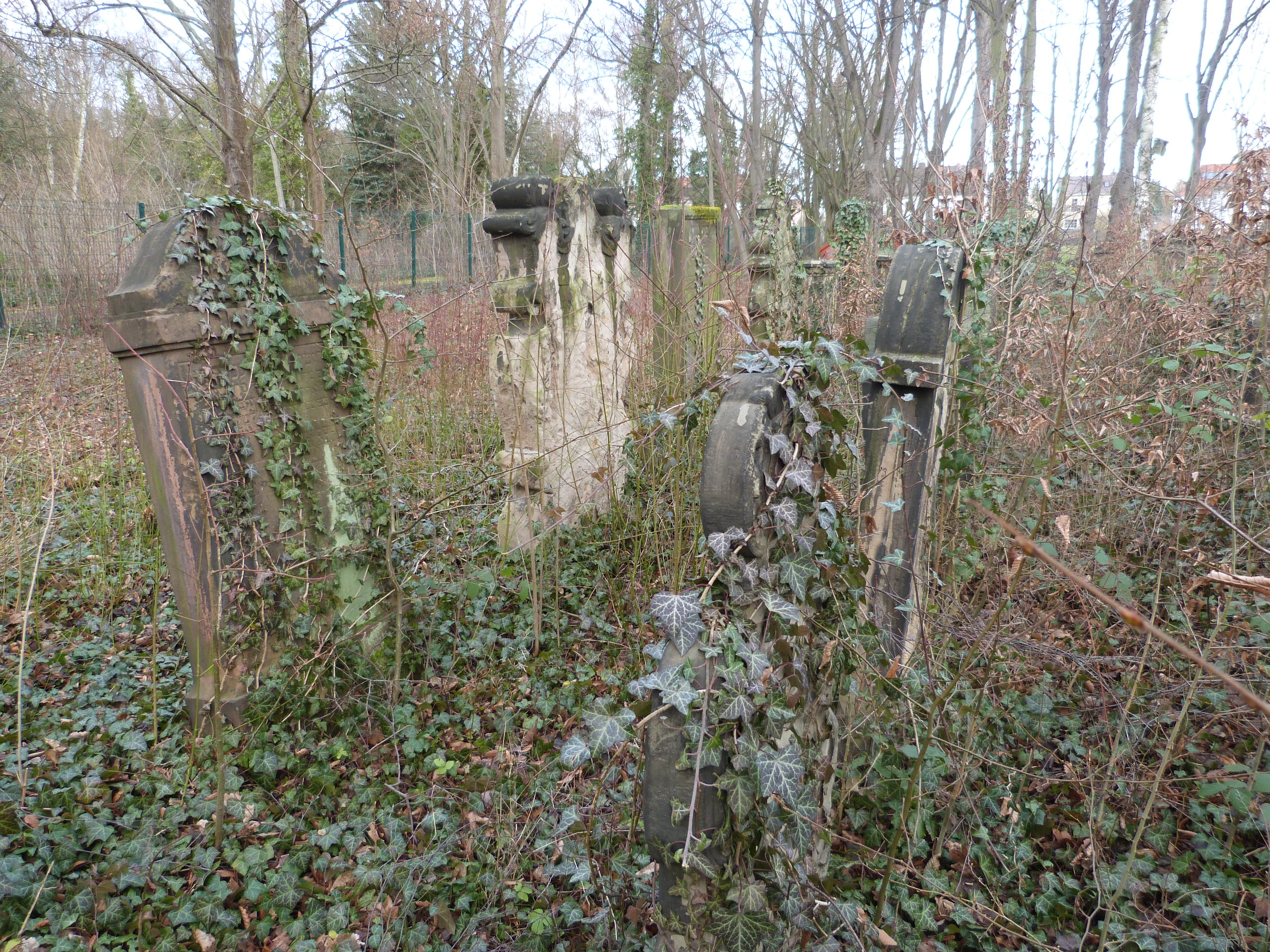 Historical grave stones on the new jewish cemetery in Halle (Saale)